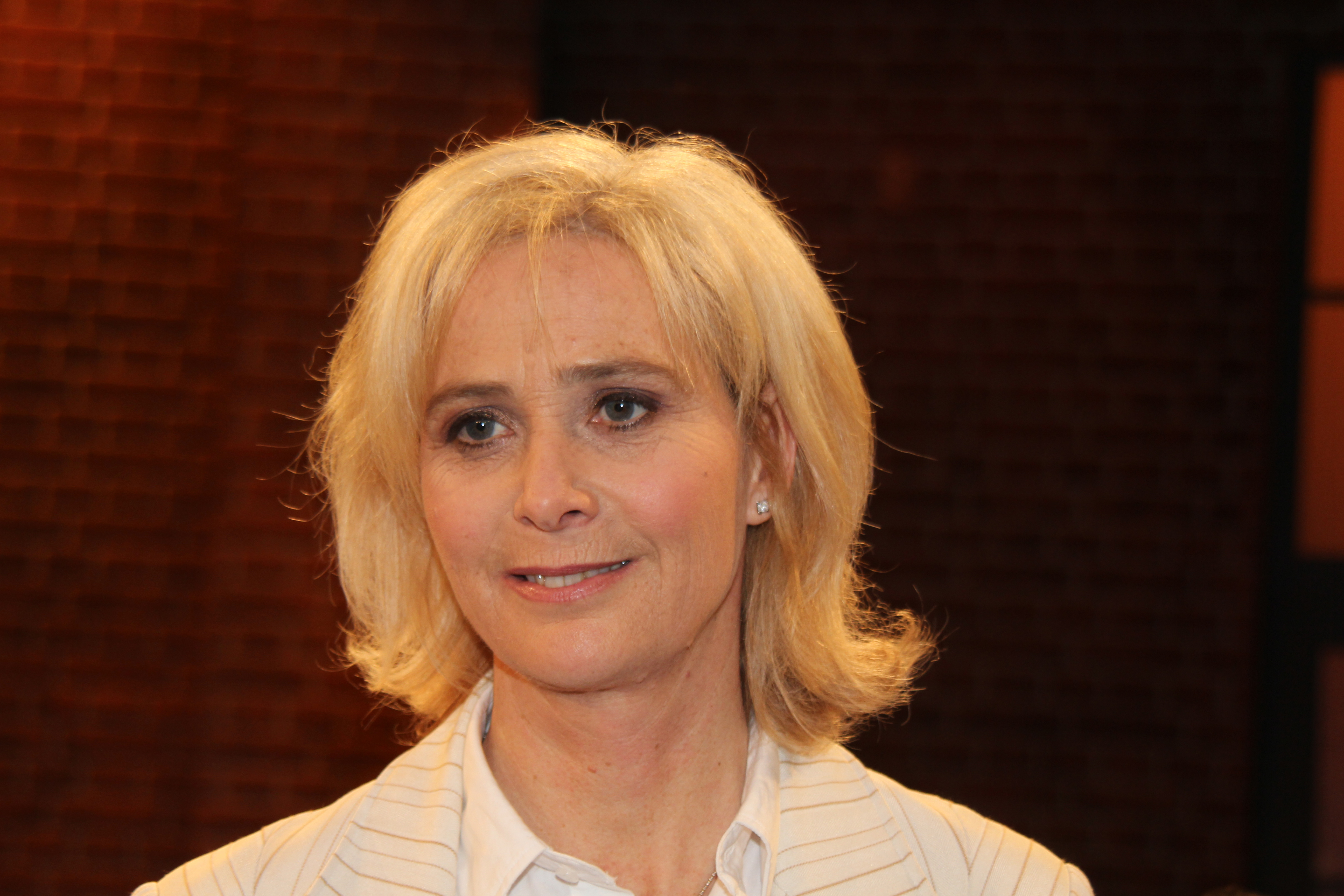 Claudia Kohde-Kilsch, former German Tennis Player